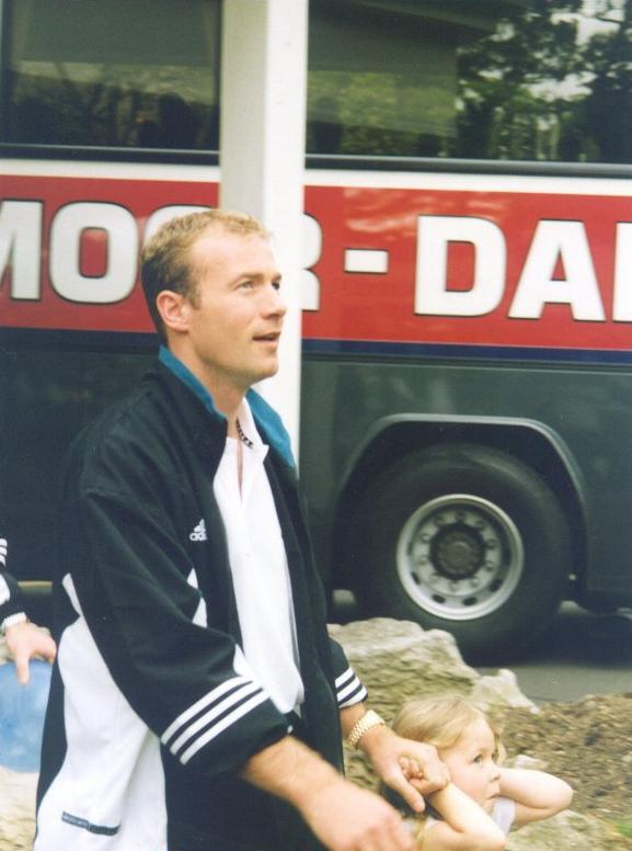 Alan Shearer after the FA CUP final in 1998.